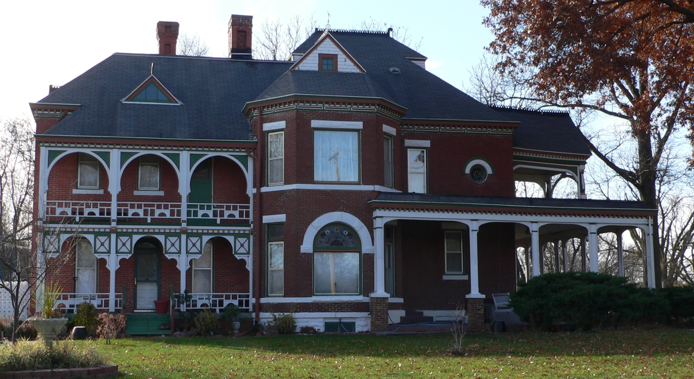 J.M. Burk House at 331 N. 11th St. in Geneva, Nebraska; seen from the north. The Queen Anne house was designed by architect E. A. Webster and built in 1891. It is listed in the National Register of Historic Places.